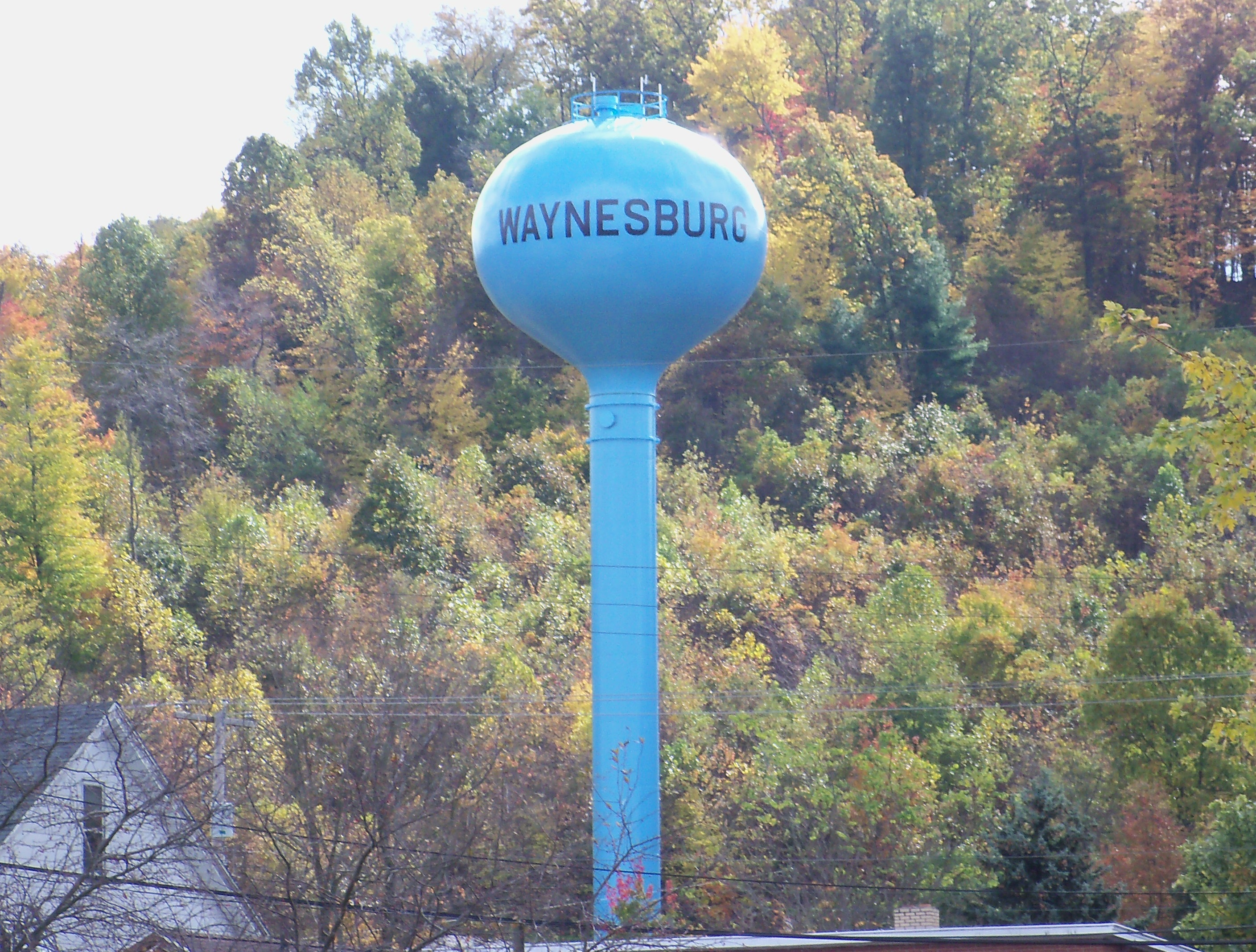 Waynesburg, Ohio watertower seen from old Waynesburg Cemetery.